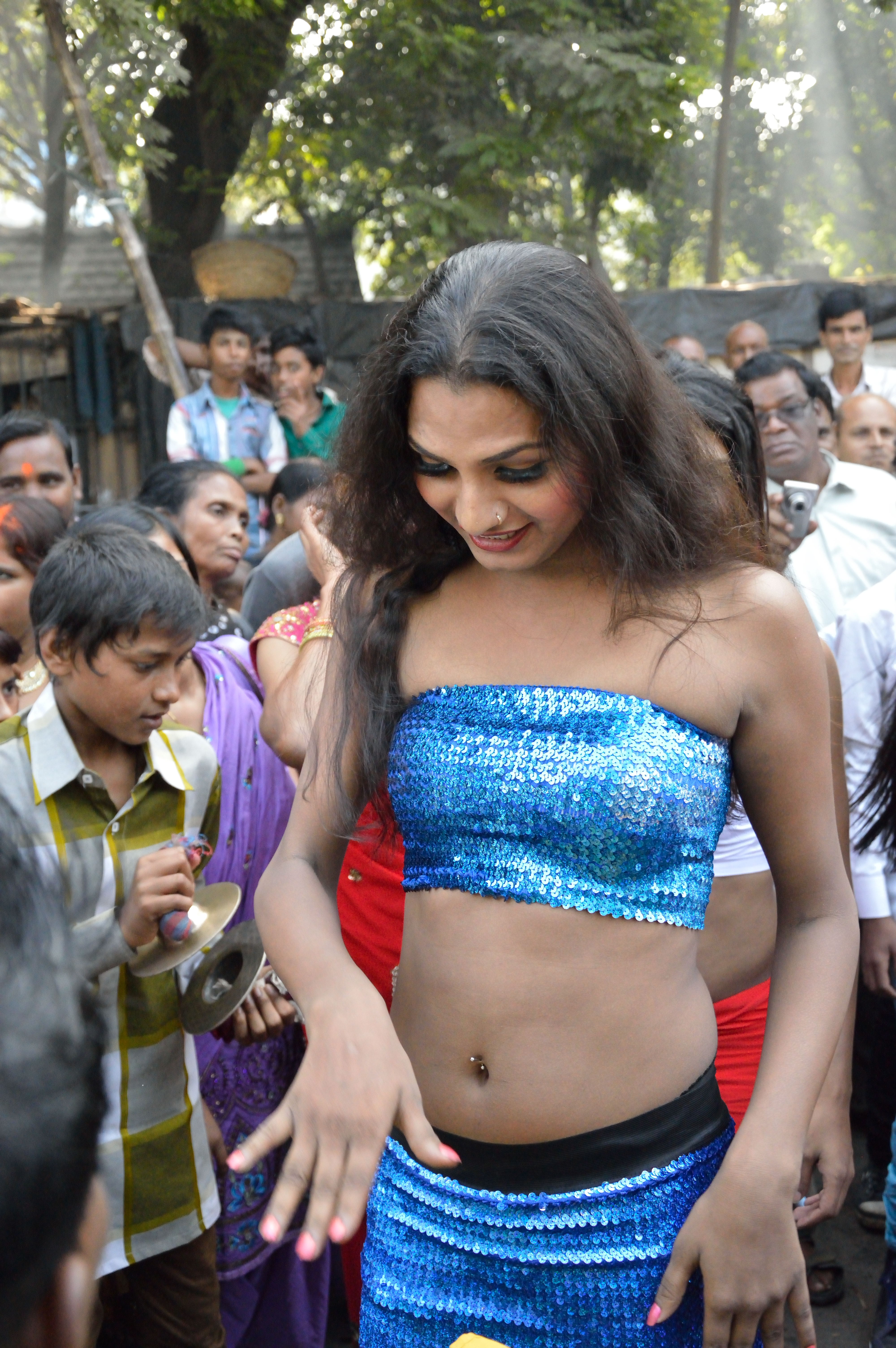 Photographed during the Chhath puja ceremony (festival dedicated to the Sun god) at the bank of river Hooghly, Kolkata. This Hindu festival regarded mainly by the people of Indian states Bihar, Uttar Pradesh, Jharkhand etc.